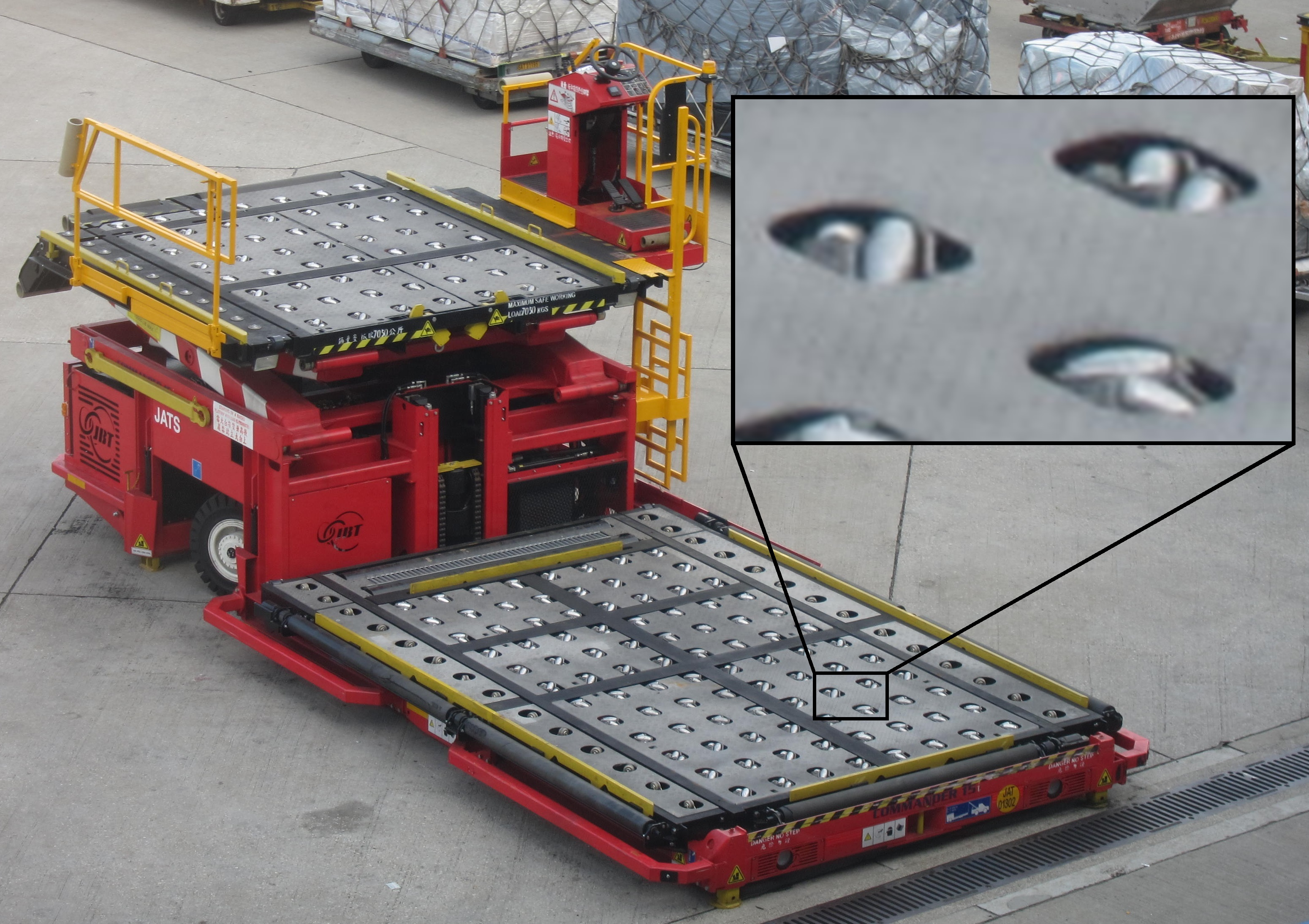 Photo of aircraft container and pallet loader showing its numerous powered rollers for shifting and rotation of containers. Taken in Hong Kong International Airport. Zoom to the Mecanum wheels.